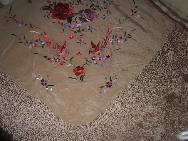 bordados a mano seda naturali la diferencia de precios, es por ser las flores grandes y tiene mas cantidad de flecos los precios son por unidad a mas cantidad mas economicos son,desea hacer alguna pregunta pinche en la foto y la puede dejar o escribiendo a